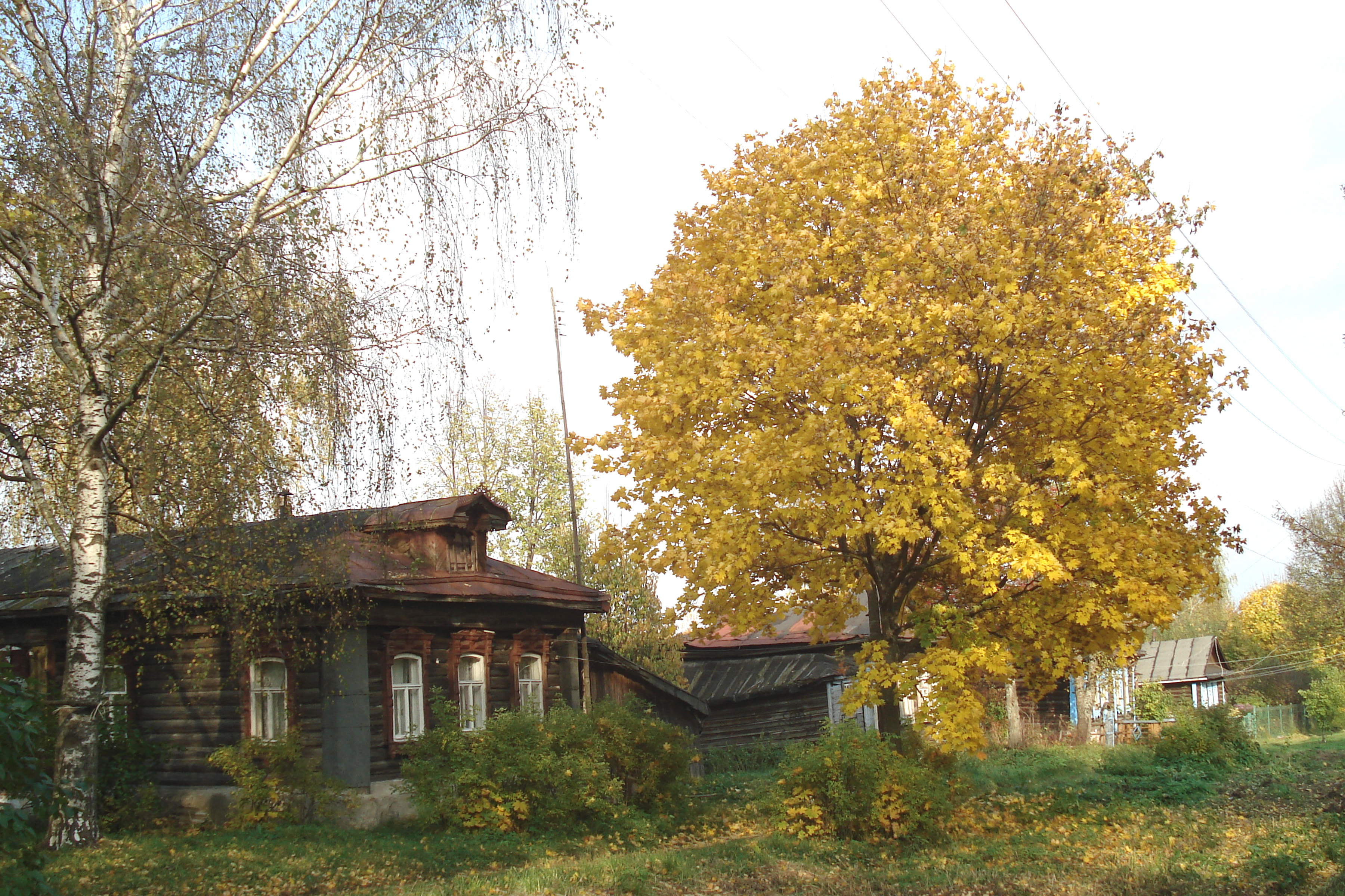 The Village of Tretye Pole. Nizhegorodskaya oblast. Russia.